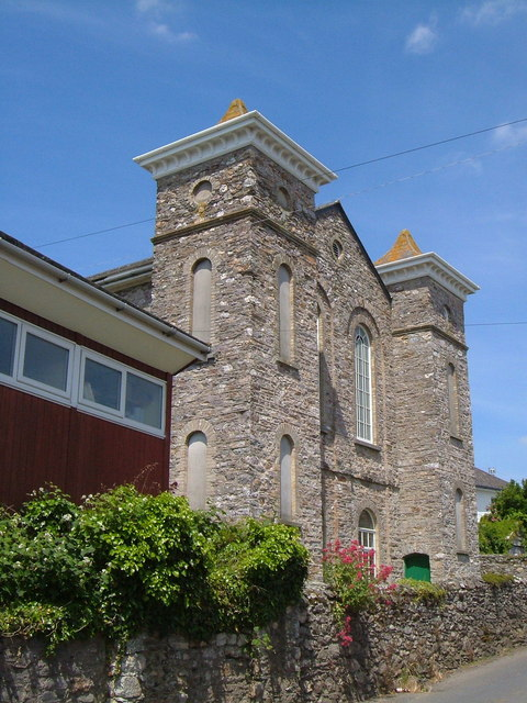 East front of Congregational Church, New Road, Loddiswell, Devon, seen from the southeast. On the left is one of the buildings of Loddiswell School.